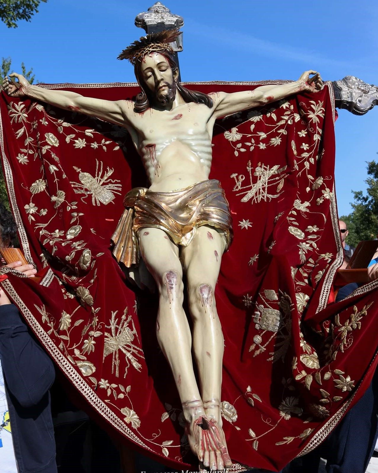 La Sacra Effigie